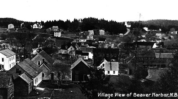 Postcard roof top view of houses, ca. 1920. Provincial Archives of New Brunswick number P22-370.